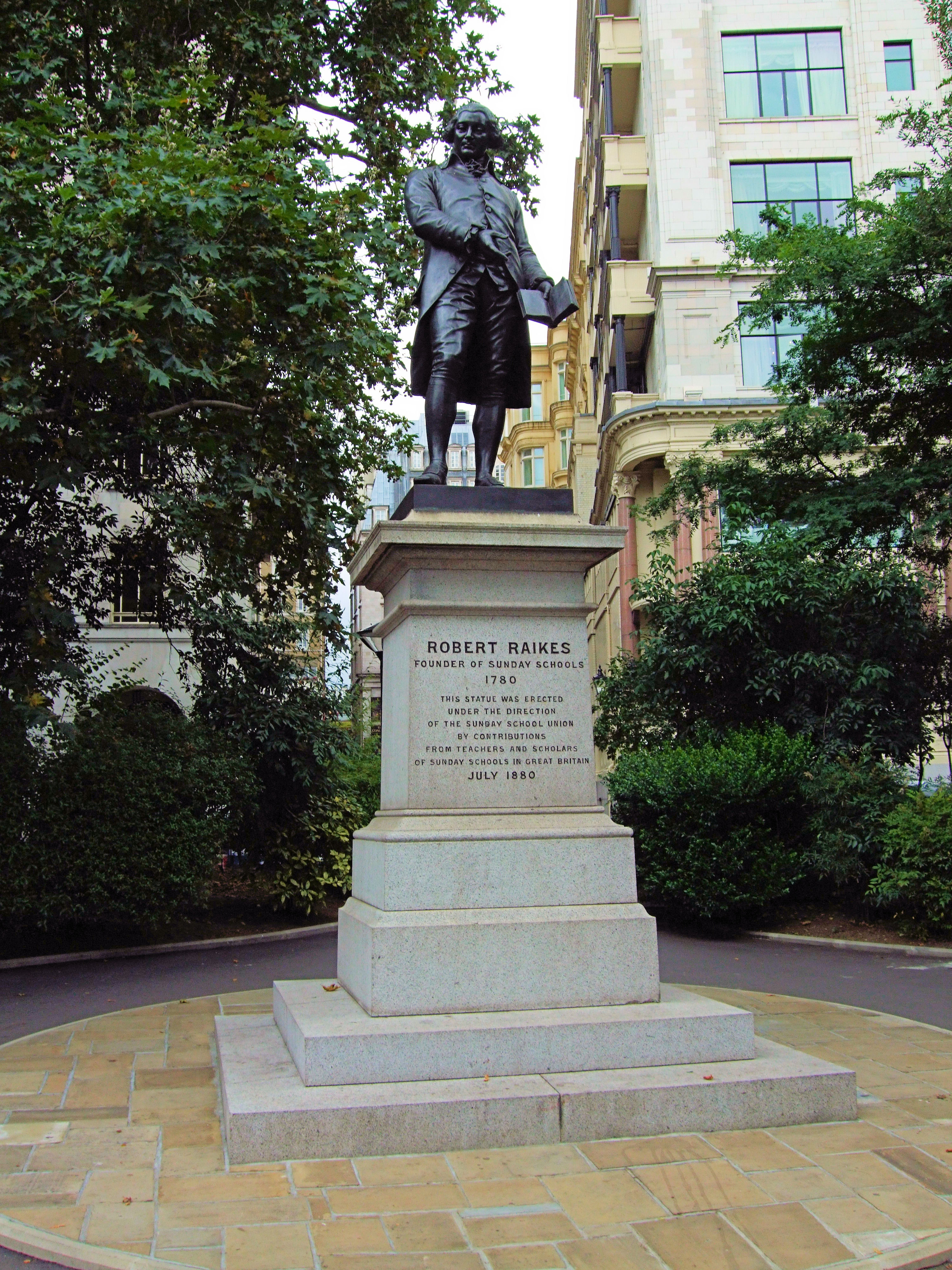 Robert Raikes (14 September 1736 – 5 April 1811) was an English philanthropist and Anglican layman, noted for his promotion of Sunday schools.